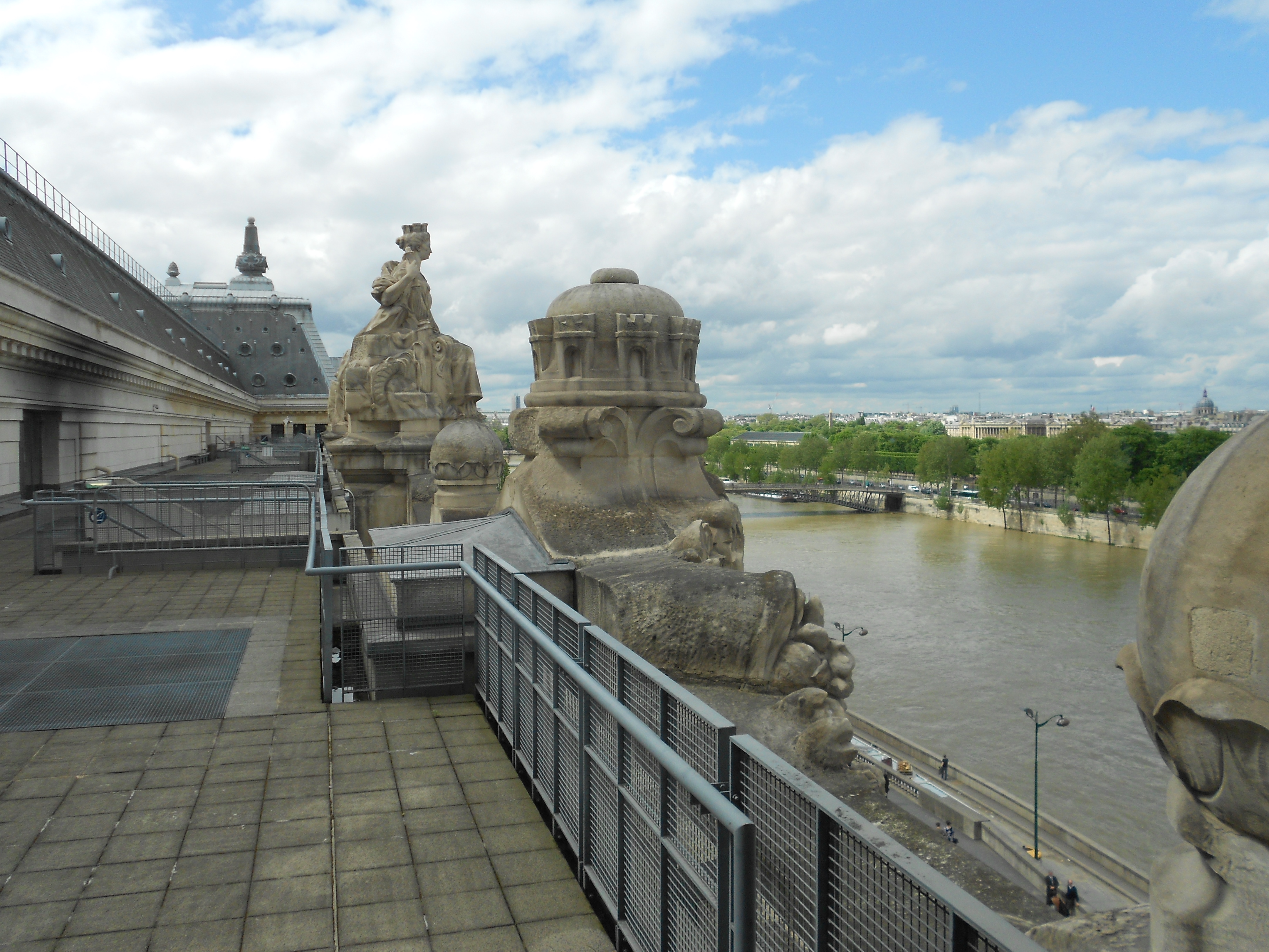 View from the rooftop of the musée d'Orsay towards the river Seine